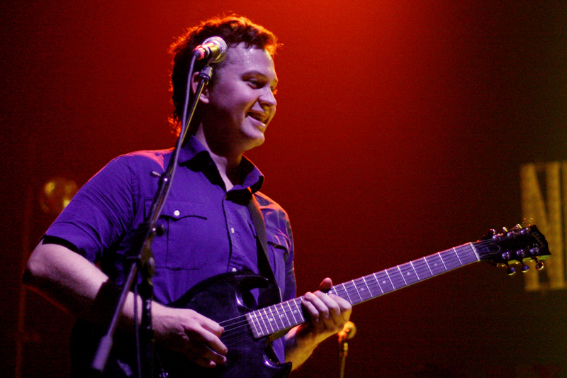 Brooke Gallupe from Immaculate Machine at Webster Hall, 2007